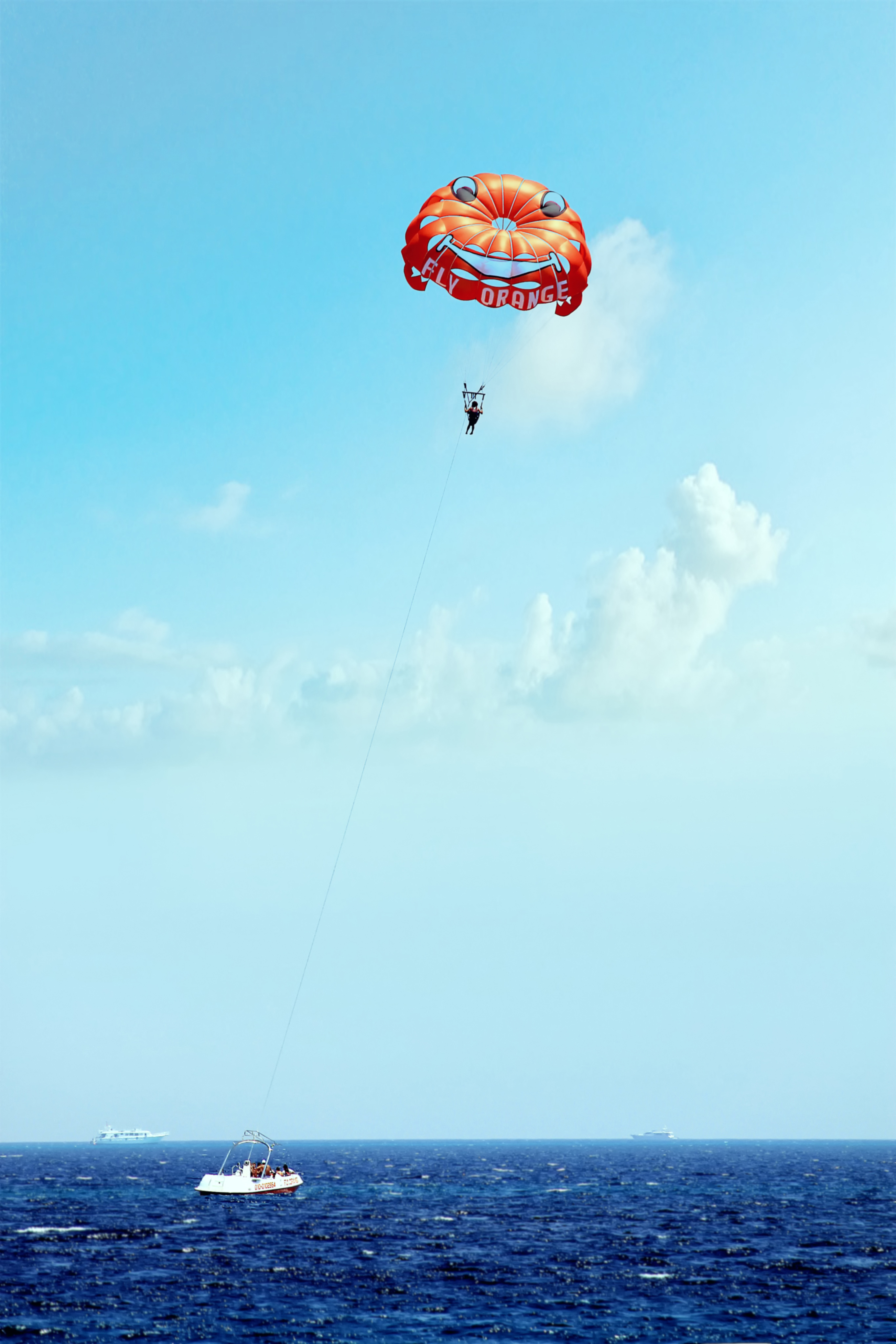 Take part in parasailing, a recreational activity where a one or two people are towed behind a boat while attached to a parachute, ascending up to 40-50 meters (about 164 feet) in the air with a full 10-13 min flight time. - Hurghada - Egypt This is an image with the theme "Africa on the Move or Transport" from: Egypt